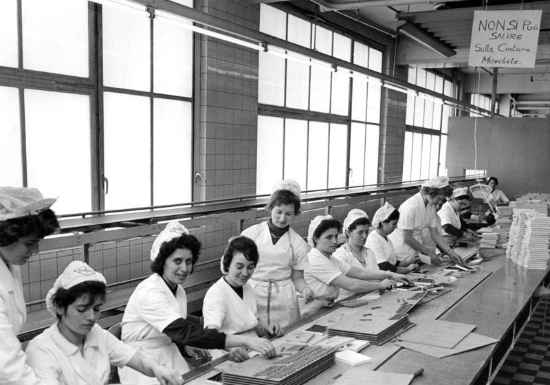 Italian „Gastarbeiter“ at the chocolate manufacturer Stollwerck in Cologne (Germany), 1962. The text on the hand-written sign ("Non Si Può Salire Sulla Cintura Movibile.") is Italian and means "You can't step on the conveyor belt.")